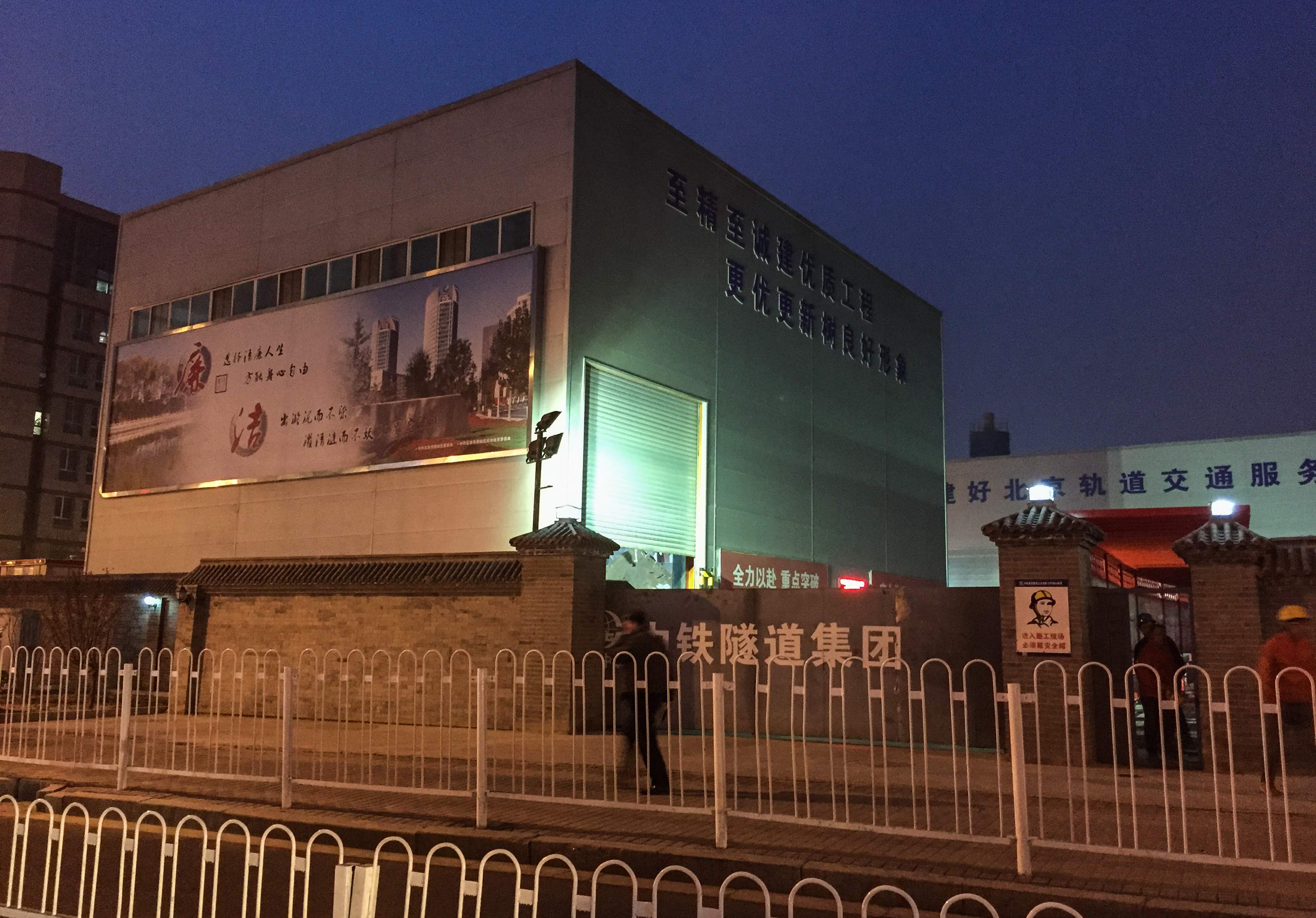 Line 19, possibly 120km/h. This is only Phase 1...